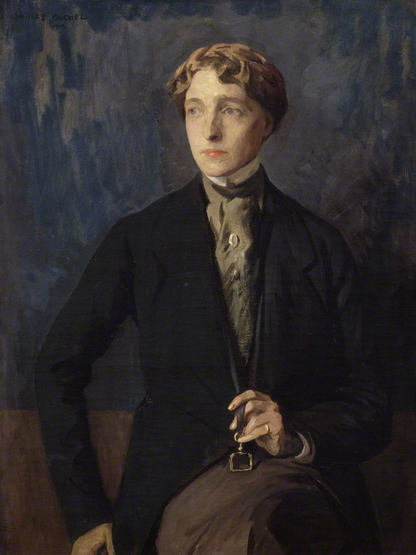 Portrait of Radclyffe Hall by Charles Buchel (Karl August Büchel), oil on canvas.